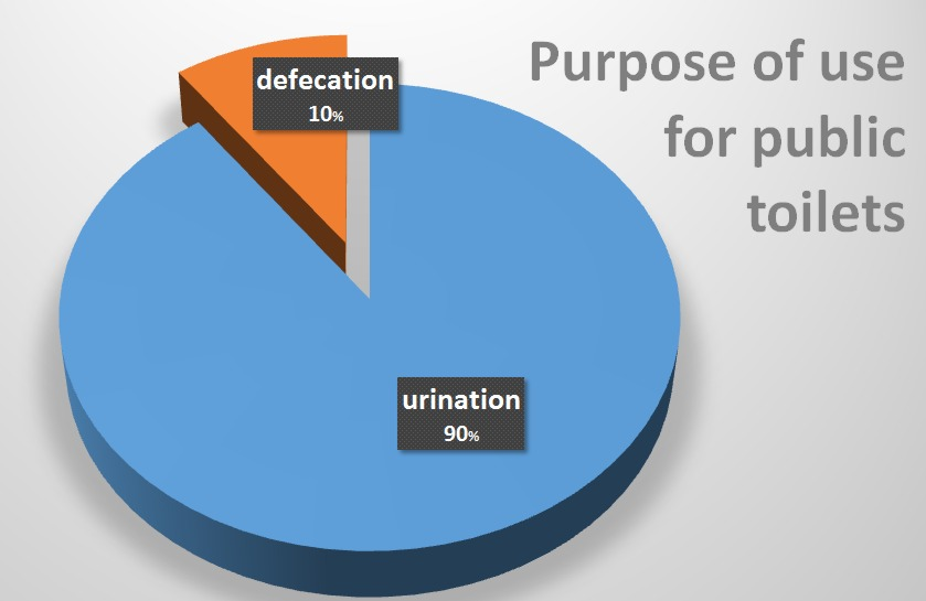 Purpose of public toilet usage, based on Kyriakou, D., & Jackson, J. (2011): We Know Squat About Female Urinals. Plumbing Connection, (Autumn 2011), 54 [1]